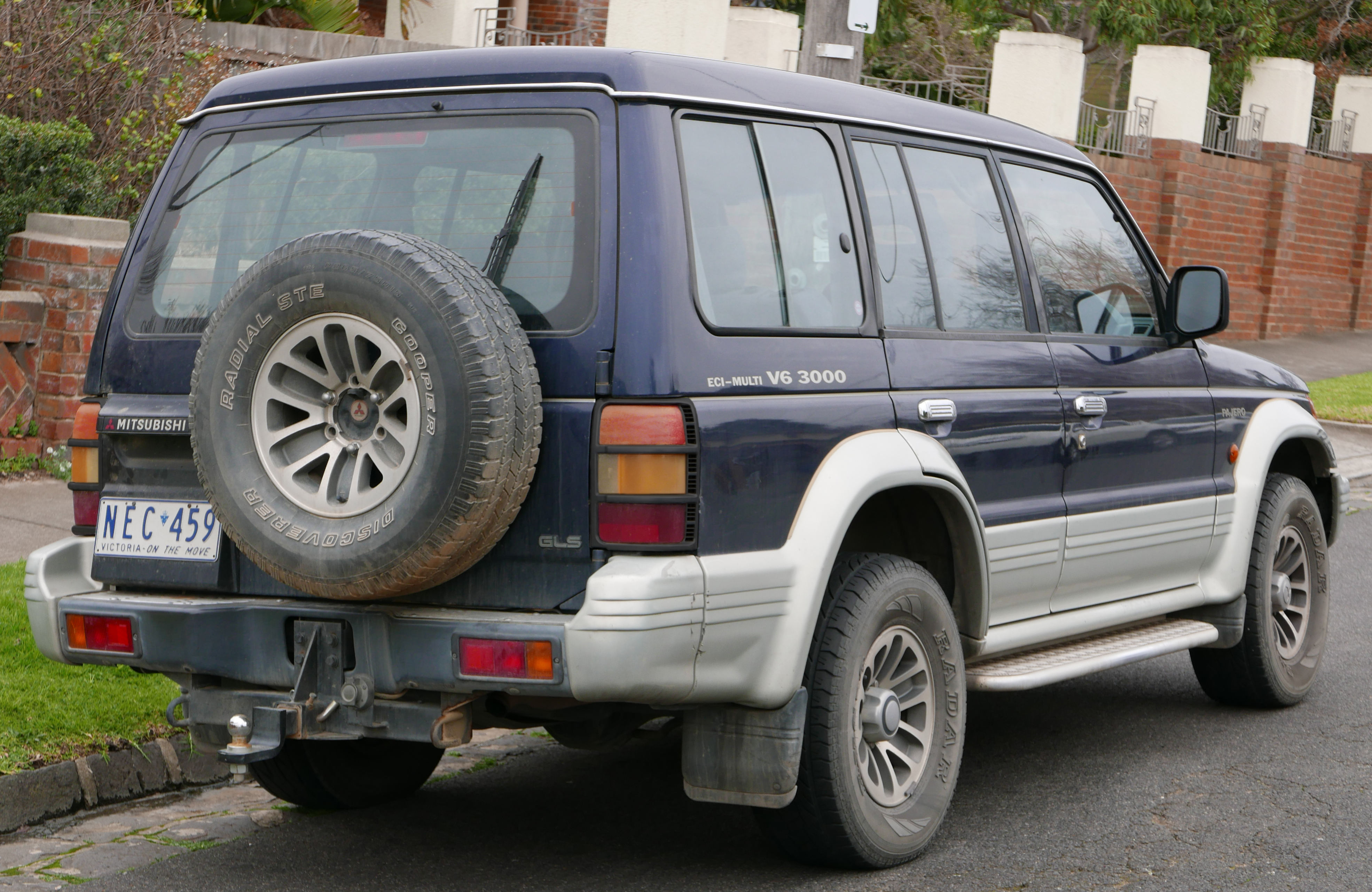 1994 Mitsubishi Pajero (NJ) GLS wagon. Photographed in Kew, Victoria, Australia. Vehicle registration enquiry results Jurisdiction Victoria Registration NEC459 Chassis code JMFNJ6Z45RJ009467 Engine code 6G72K49579 Compliance date 1994-09 Year of manufacture 1995 (not a typo)